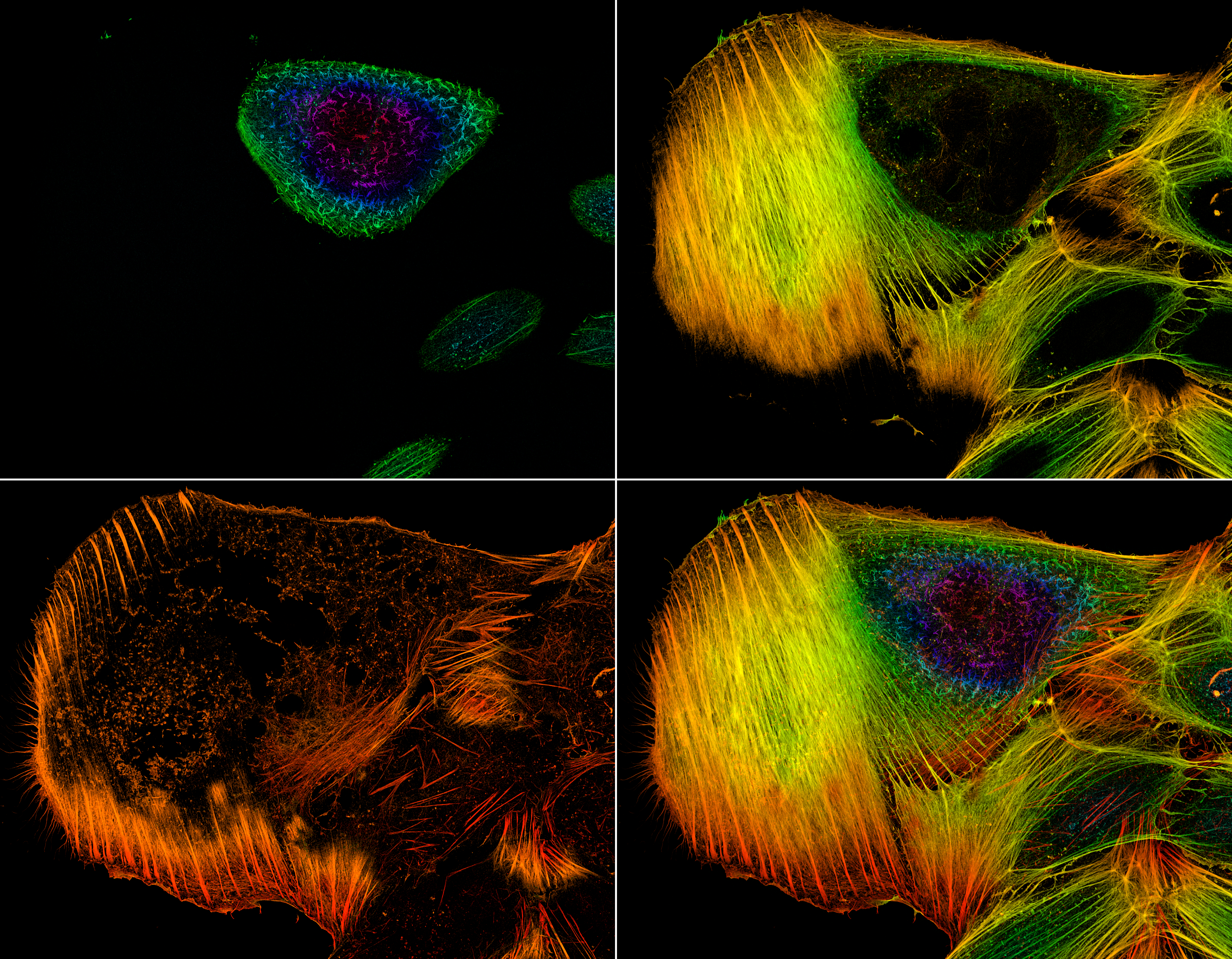 Merged stack of confocal images showing actin filaments, stained with phalloidin, in an osteosarcoma cell line (U2OS). The image has been colour coded in the z-axis to show where different types of filaments are found. Resolution: 23.5938 pixels per micron Pixel Size: 42.4 nm x 42.4 nm